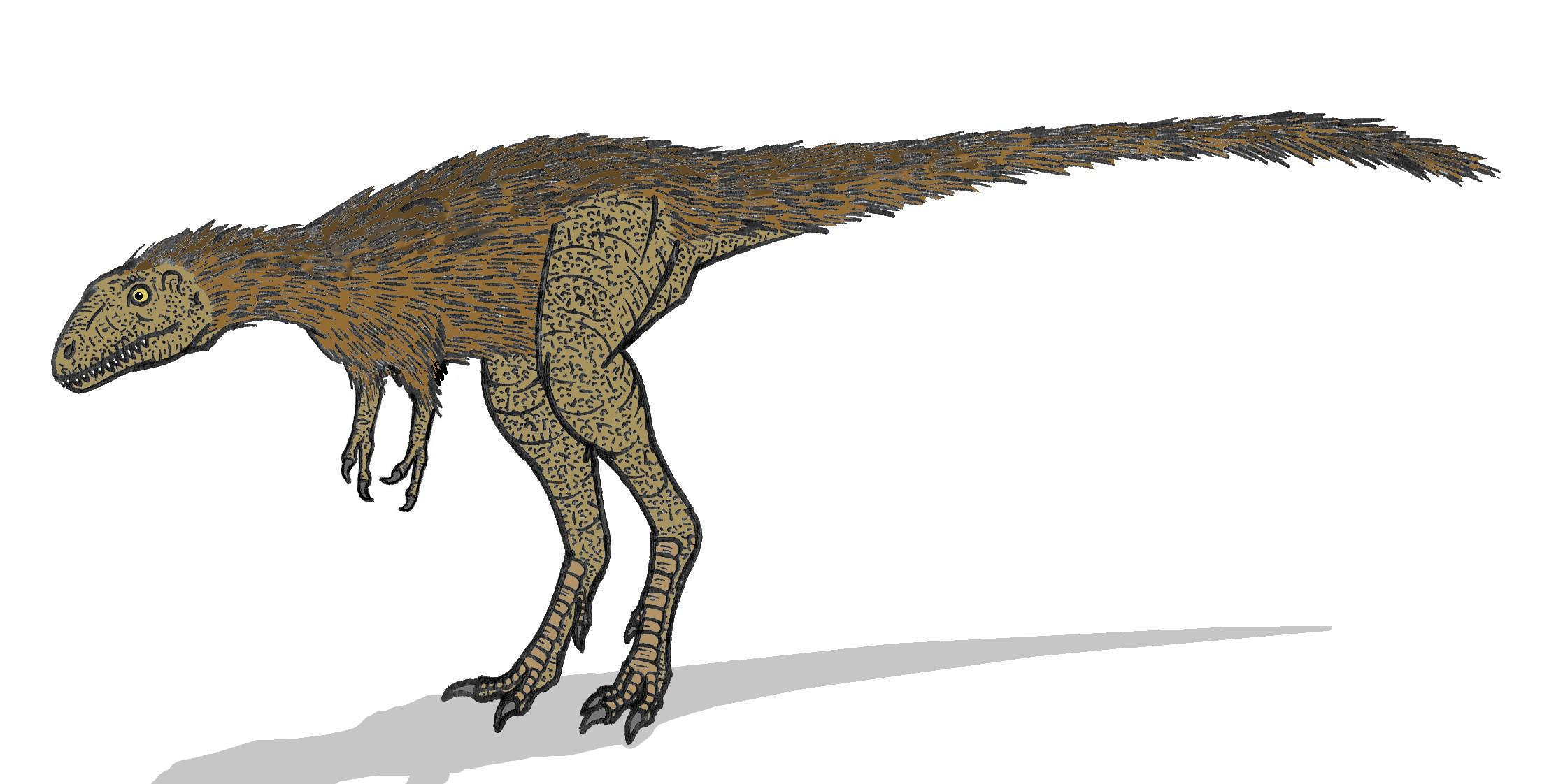 Illustration how a young Tyrannosaurus rex could have looked in life. Young Tyrannosaurids had short, pointed snouts, which has been shown by fossils from juvenile specimens of both Tyrannosaurus rex[1] and Tarbosaurus.[2] Some scientists believe young Tyrannosaurs had feathers, as depicted here. References ↑ ↑ See Scienceblogs, msnbc and japantimes for sources.